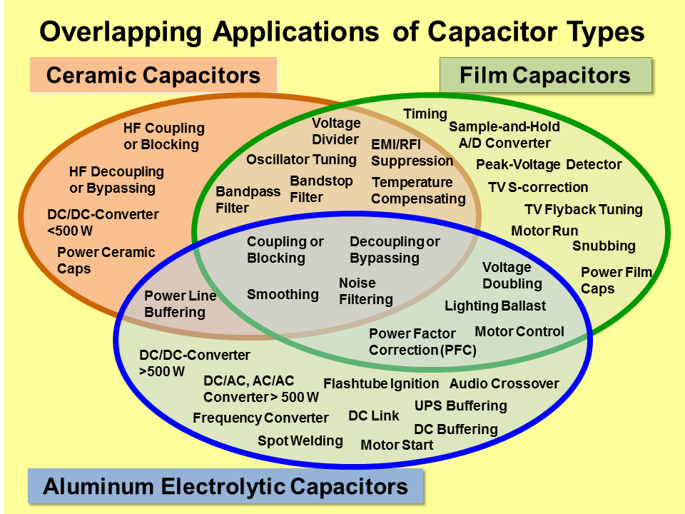 overlapping applications for Ceramic-, film- and electrolytic capacitors